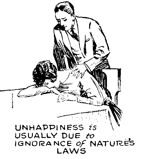 "Unhappiness is usually due to ignorance of nature's laws". Illustration of an early 20th century manual of 'social hygiene'.